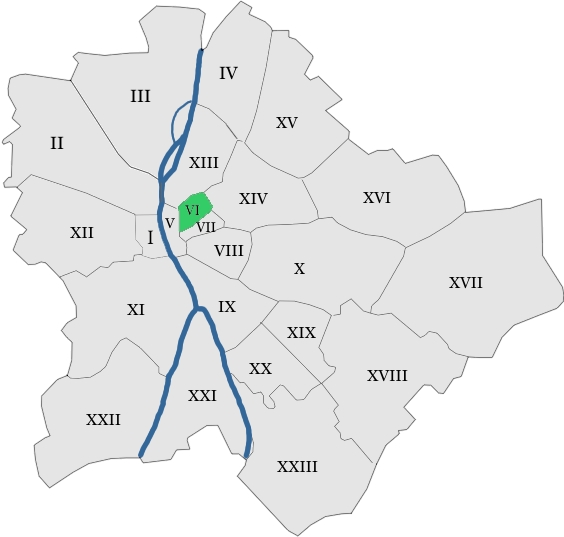 Map hungary budapest district 6